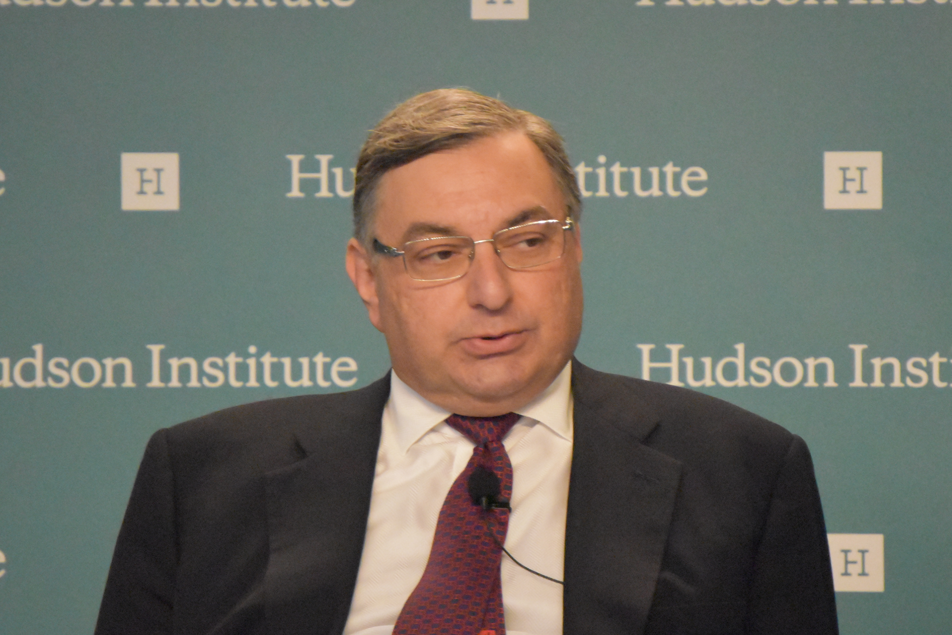 Ambassador Feisal al-Istrabadi, a former Iraqi diplomat, speaking at Hudson Institute on ISIS in Iraq: The Dangers of an Unfocused Baghdad and a Disinterested White House